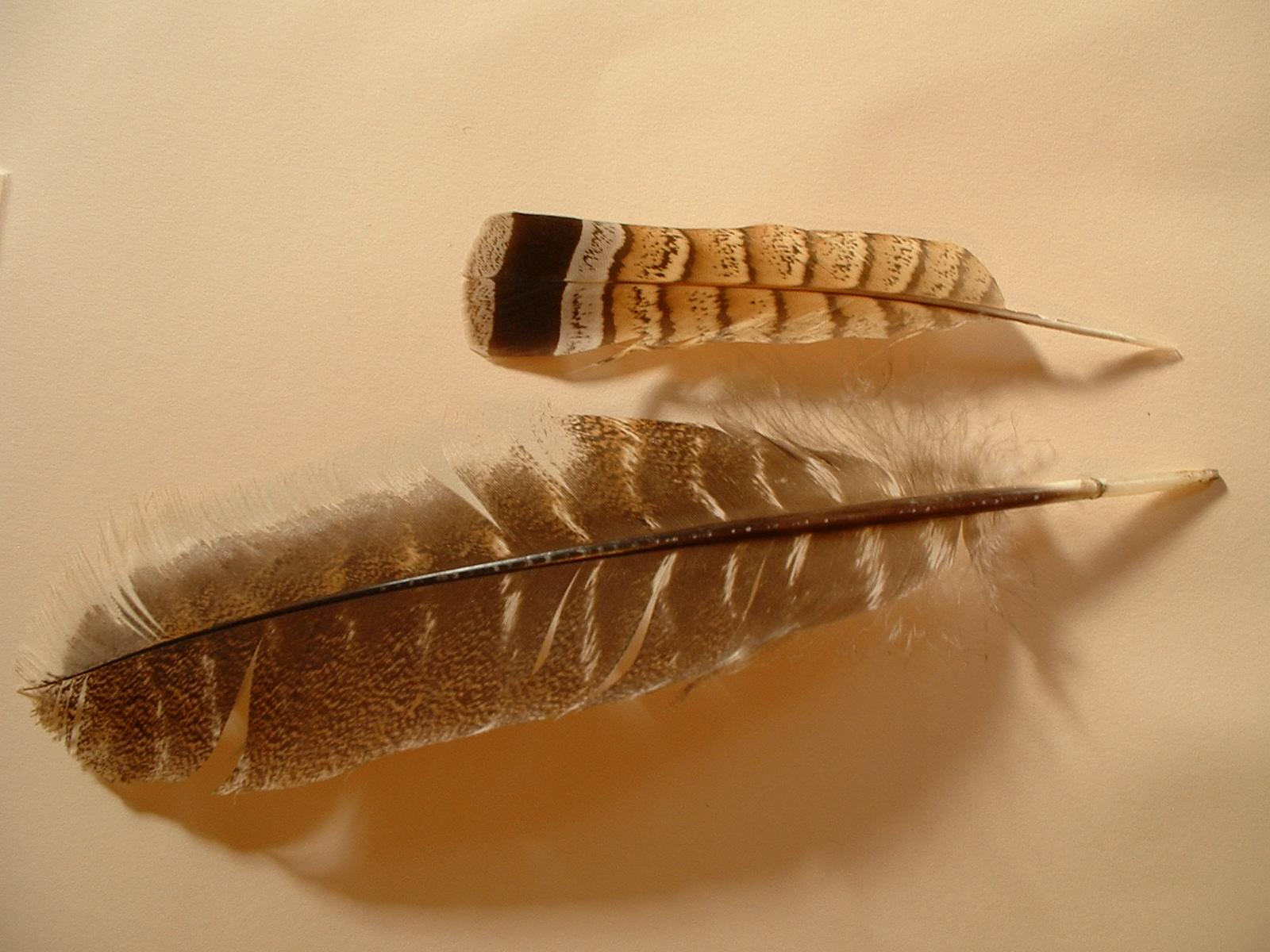 Two feathersstudy of